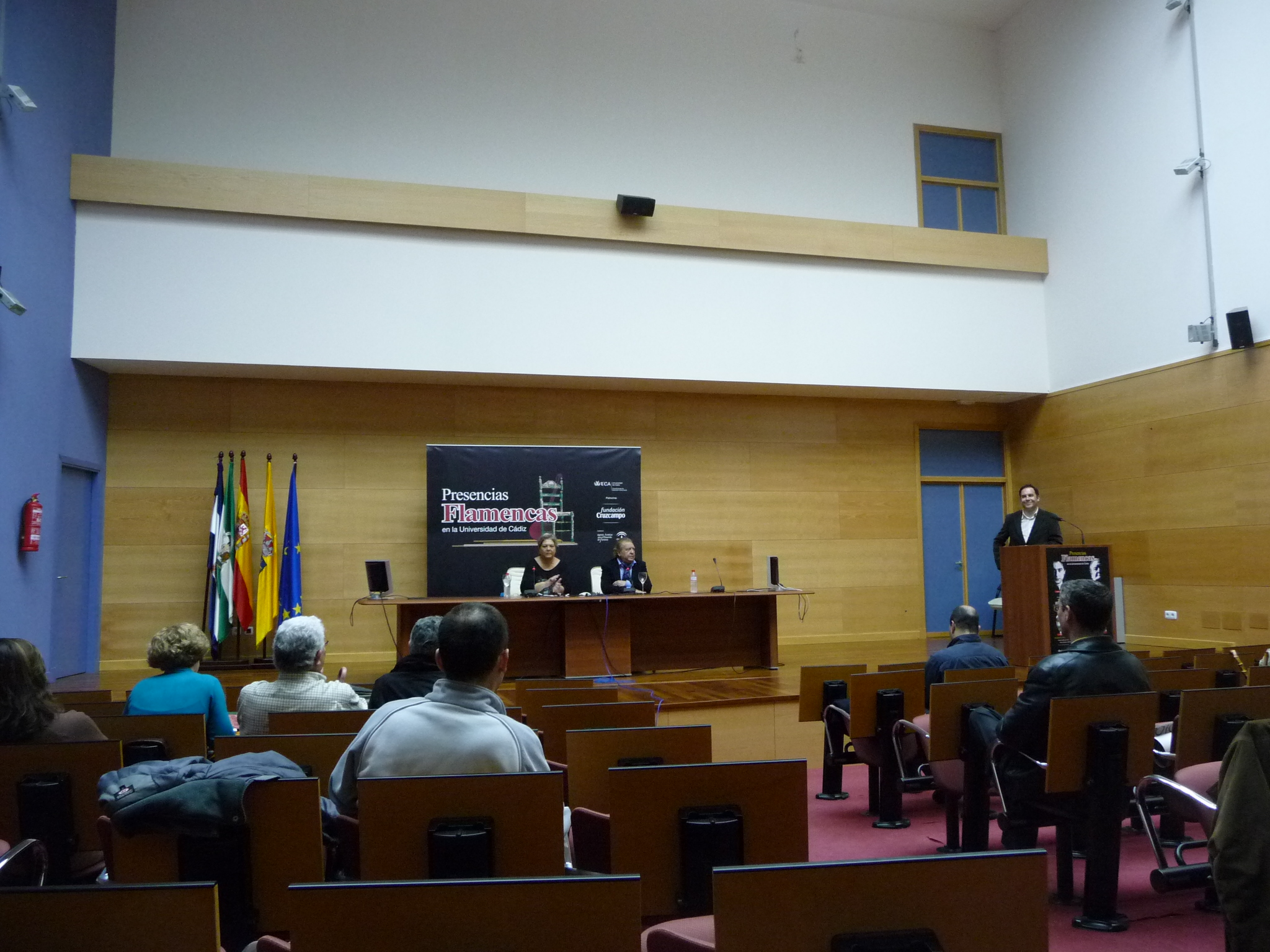 El Lebrijano at Campus de Jerez of Univesity of Cadiz (Spain)